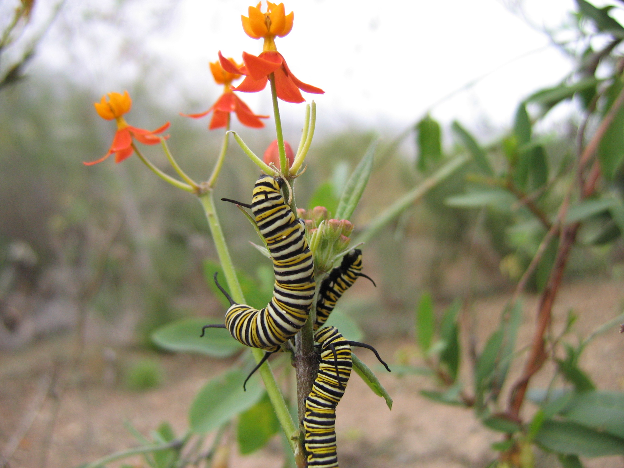 Danaus plexippus, caterpillars, feeding on Asclepias curassavica, Tenerife